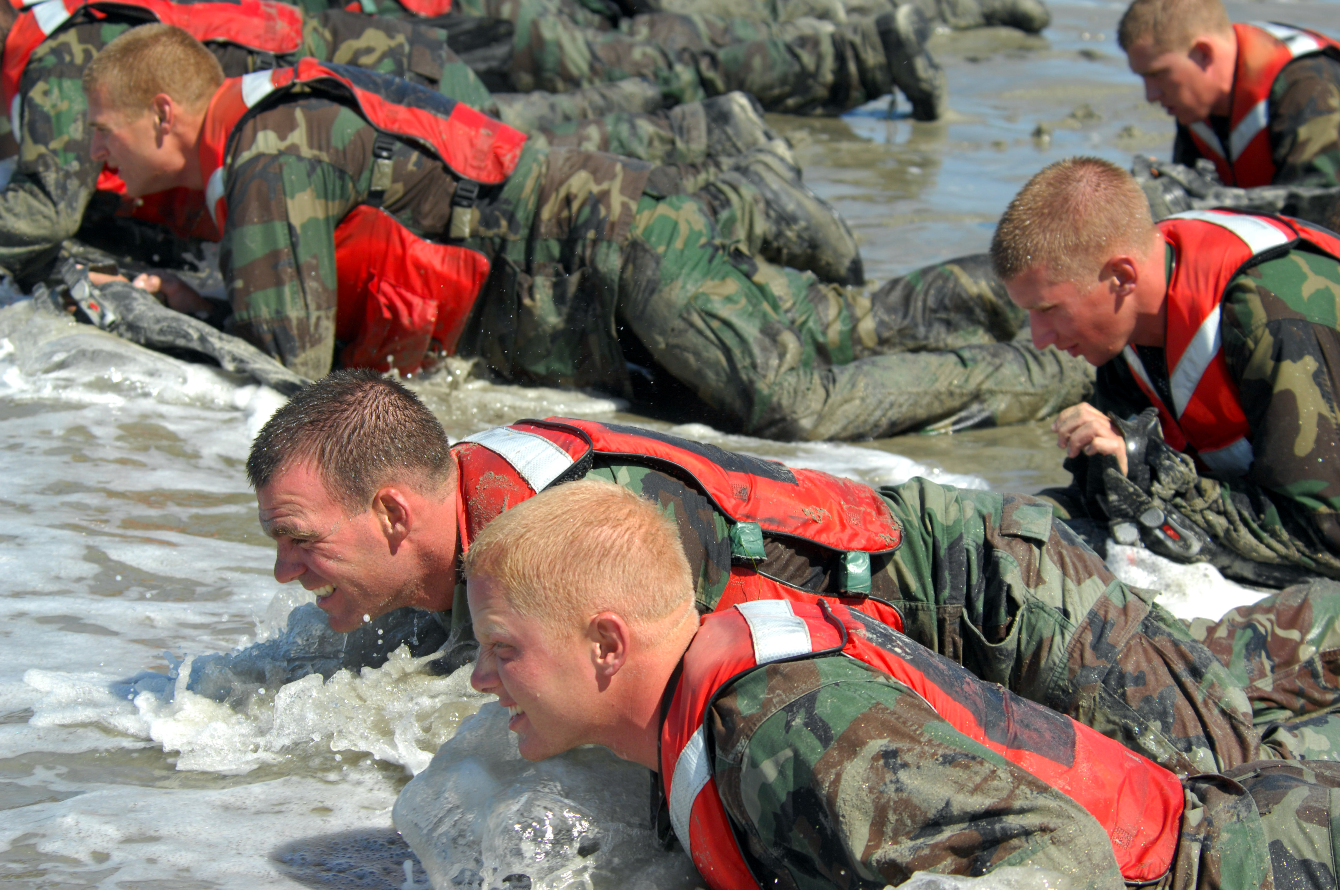 CORONADO, Calif. (Aug. 20, 2008) Basic crewman training (BCT) students crawl through the surf during their final training evolution at Naval Amphibious Base, Coronado. The final training evolution, known as the "Tour," is a three-day, two-night training session in which the students are tested physically and mentally on what they have learned during the seven-week program. BCT is the first phase of special warfare combatant-craft crewman (SWCC) training. SWCCs operate and maintain the Navy's inventory of state-of-the-art, high performance boats used to support SEALs in special operations missions worldwide. (U.S. Navy photo by Mass Communication Specialist 2nd Class Dominique M. Lasco/Released)